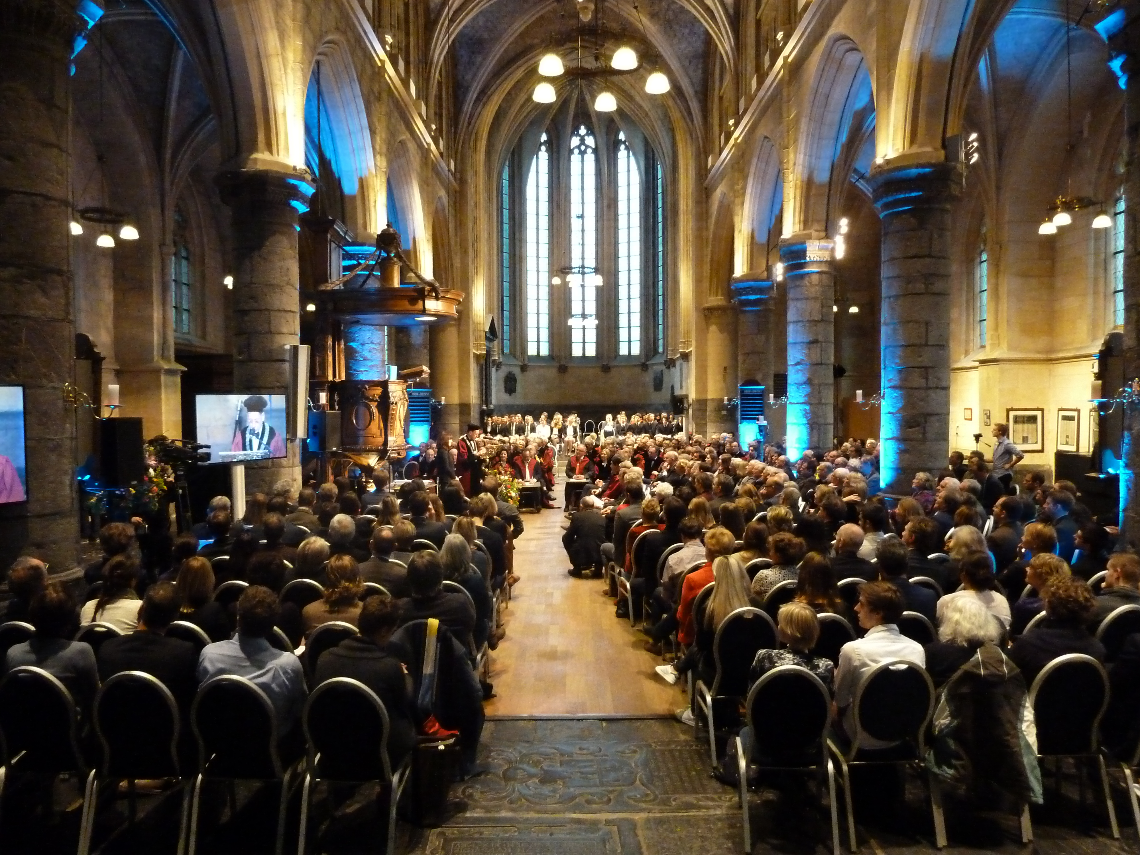 39th Dies Natalis of Maastricht University